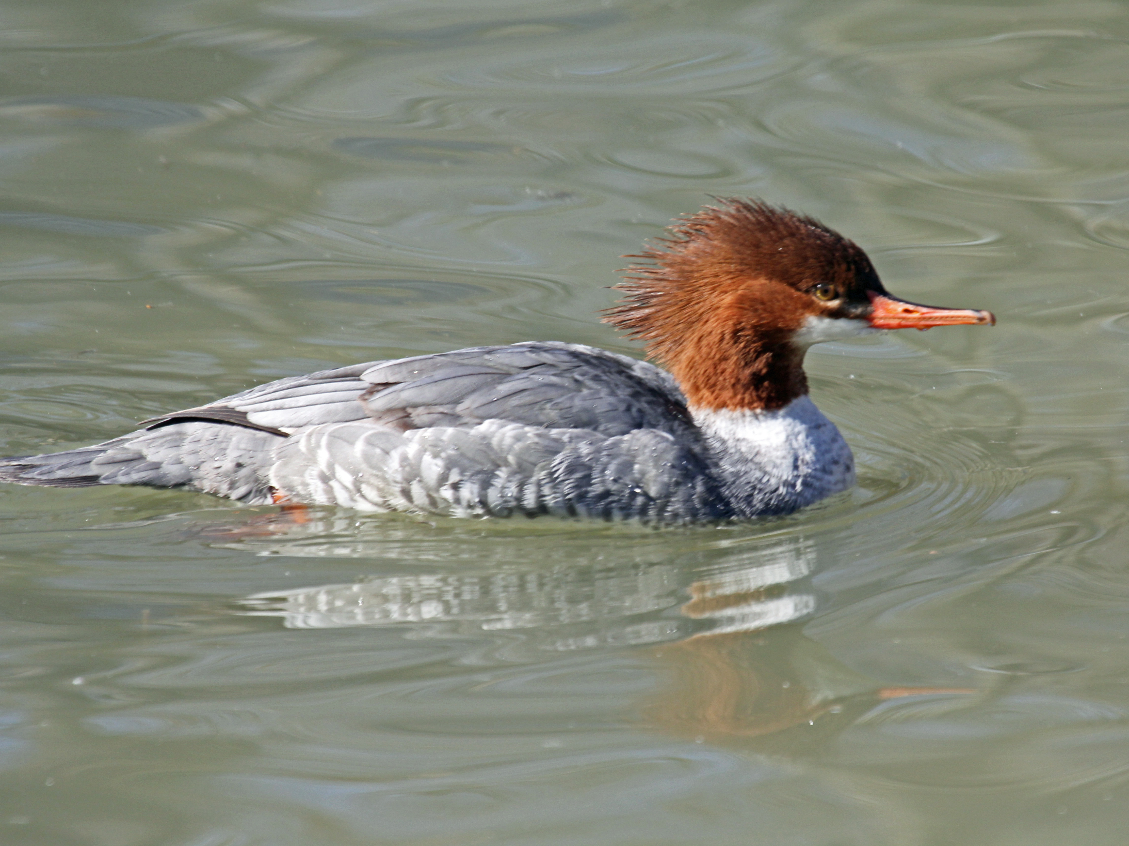 Common Merganser, female, Sylvan Heights Waterfowl Park, Scotland Neck, North Carolina